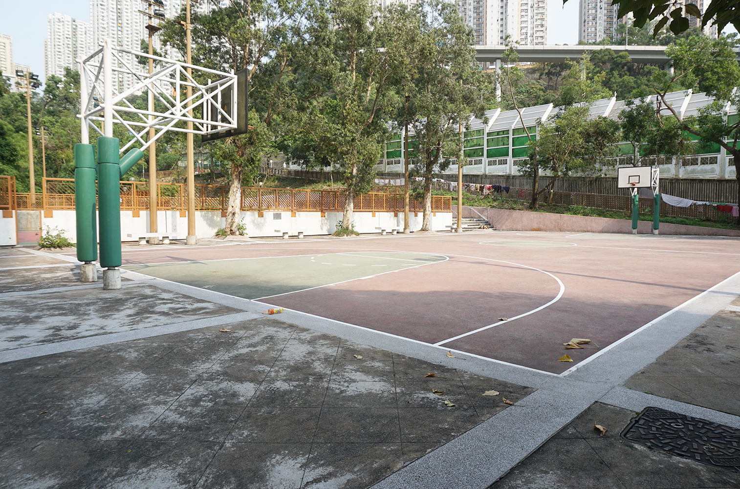 Tsui Ping (South) Estate in Kwun Tong, Hong Kong.